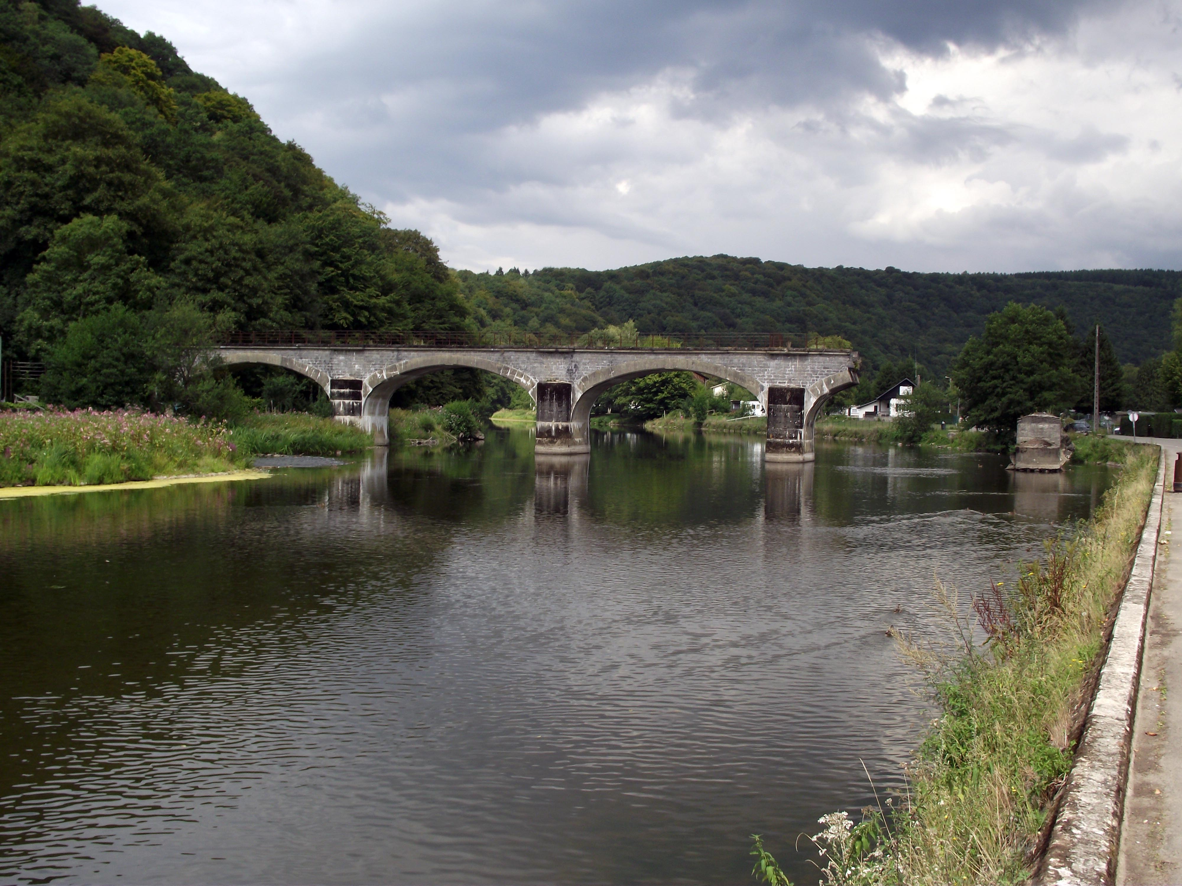 Old vicinal railway bridge over the semois river at Bohan. This bridge was opened in 1935 and destroyed at the end of the war 1944 and never rebuild.